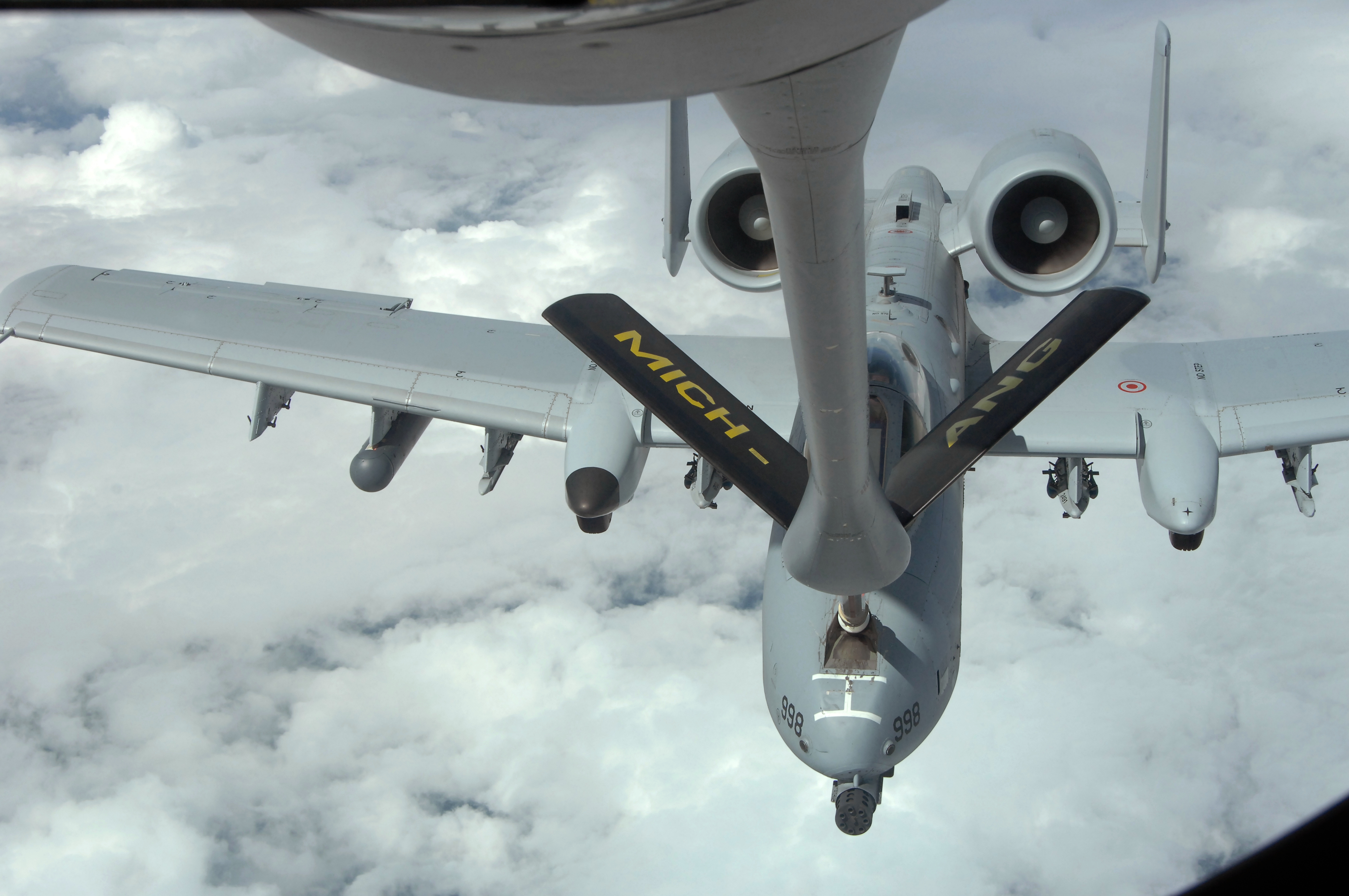 Michigan Air National Guard KC-135 Stratotanker hooks up with an A-10 Thunderbolt II Aircraft for an aerial refueling near the border between Latvia and Estonia, June 12, in support of Exercise Saber Strike 2012. Michigan Air National Guard Airmen deployed to Estonia in mid June for the Exercise, which is a multinational exercise based in Latvia and Estonia that promotes trust and interoperability among participating nations. (Air National Guard Photo by SSgt Rachel Barton)